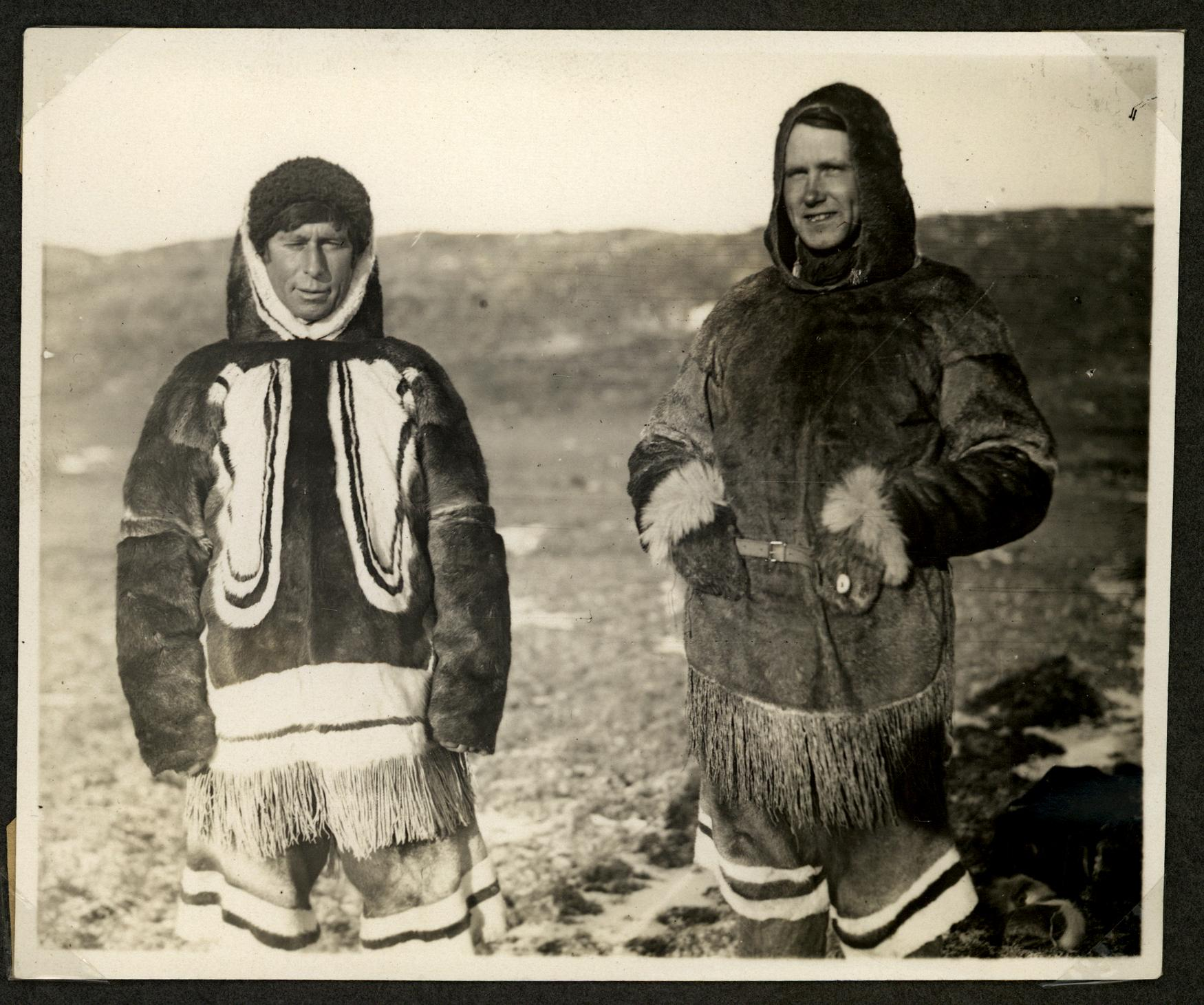 Polar explorer Knud Rasmussen and ethnographer Kaj Birket-Smith wearing clothing of the Caribou Inuit and an unknown Inuit group respectively. After a tough journey through Barren Grounds to the expedition base they changed their outworn skin clothing with clothing collected during the expedition. Both garments are made of caribou skin. The fringes at the lower hem prevented snow and cold to seep under the parka. Birket-Smith is wearing Greenlandic sealskin mittens. The large dress collection was later donated to the National Museum of Denmark. Photo from the 5th Thule-expedition 1921-24.